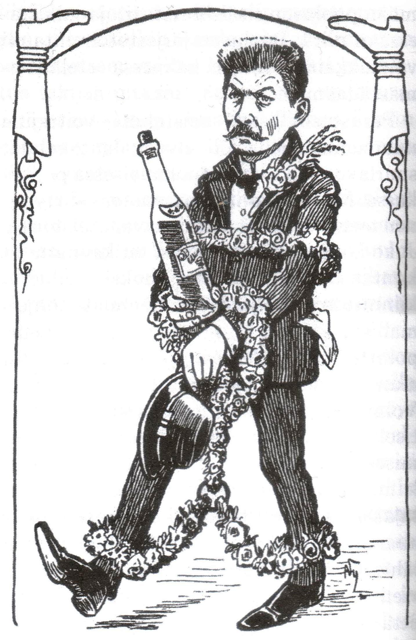 A caricature of Eetu Salin, former shoemaker and a central leader of early Finnish labour movement (who had a drinking problem). Published in Finnish humour magazine Velikulta 21–22/1910.